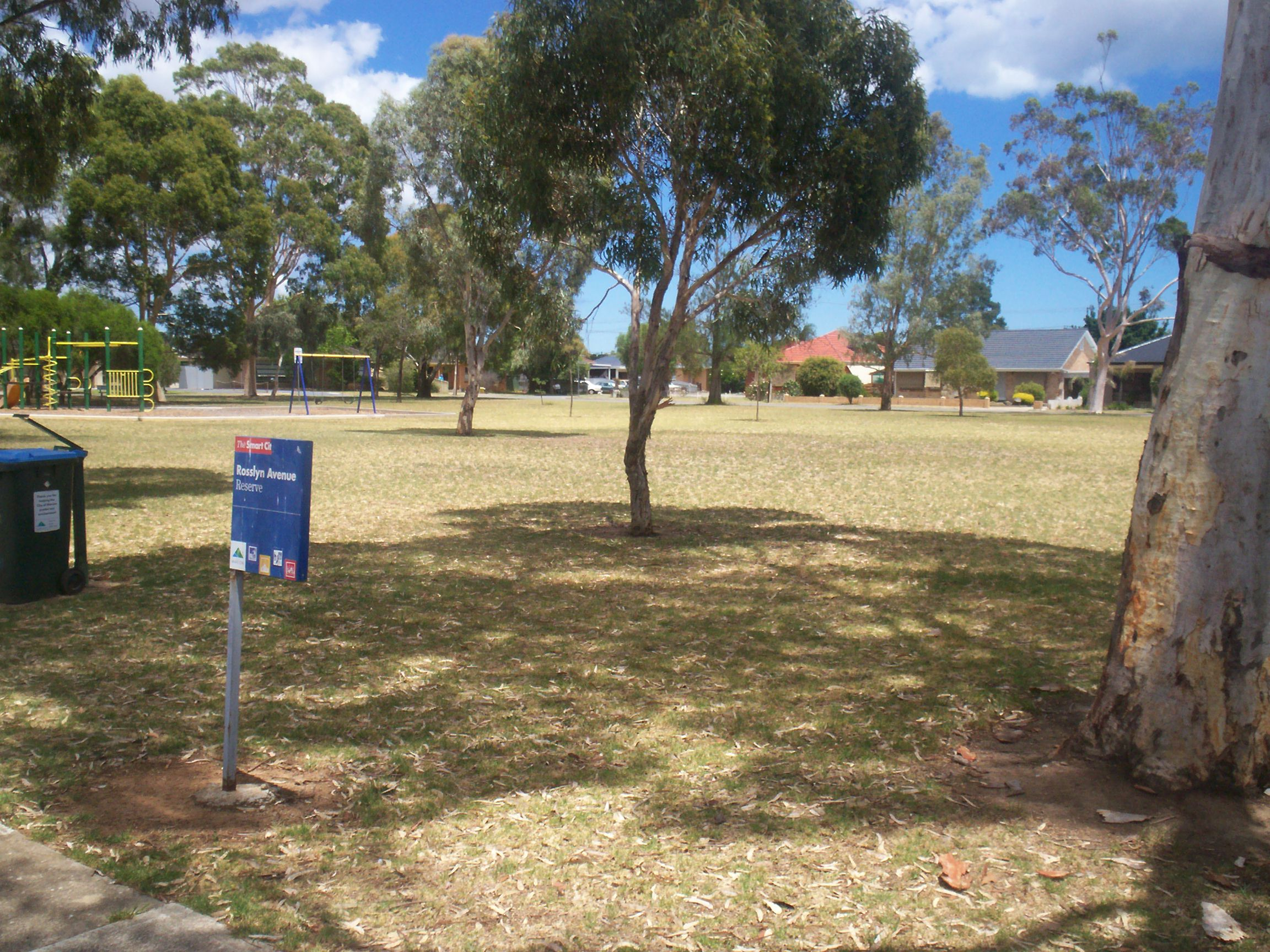 Rosslyn Avenue Reserve, view towards the southwest.